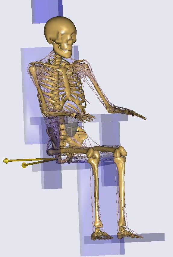 Seated model from the Anybody public repository